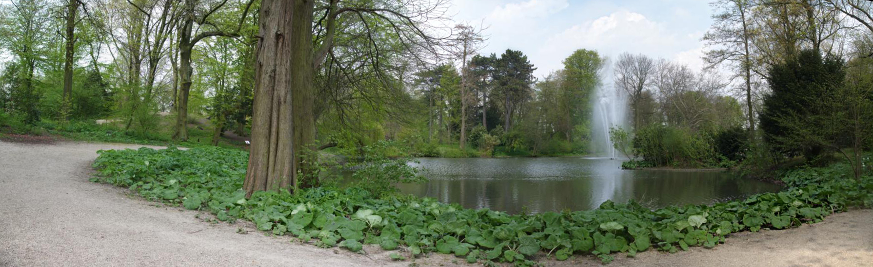 Julianapark (Utrecht, nl)